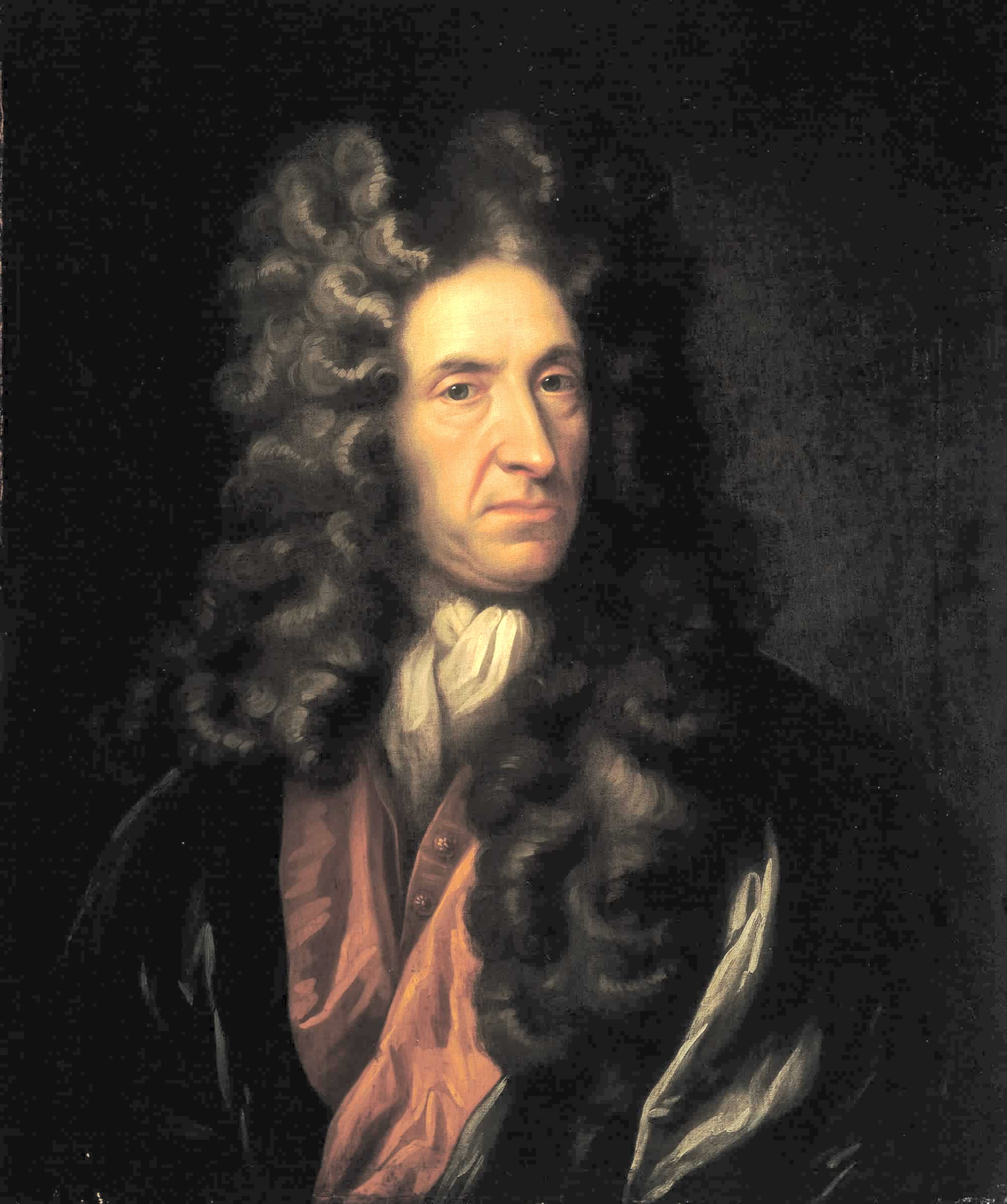 Portrait of Daniel Defoe, National Maritime Museum, London